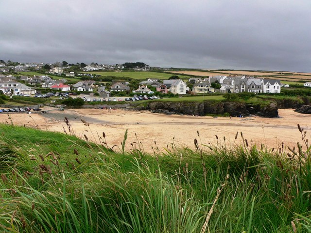 Trevone Village